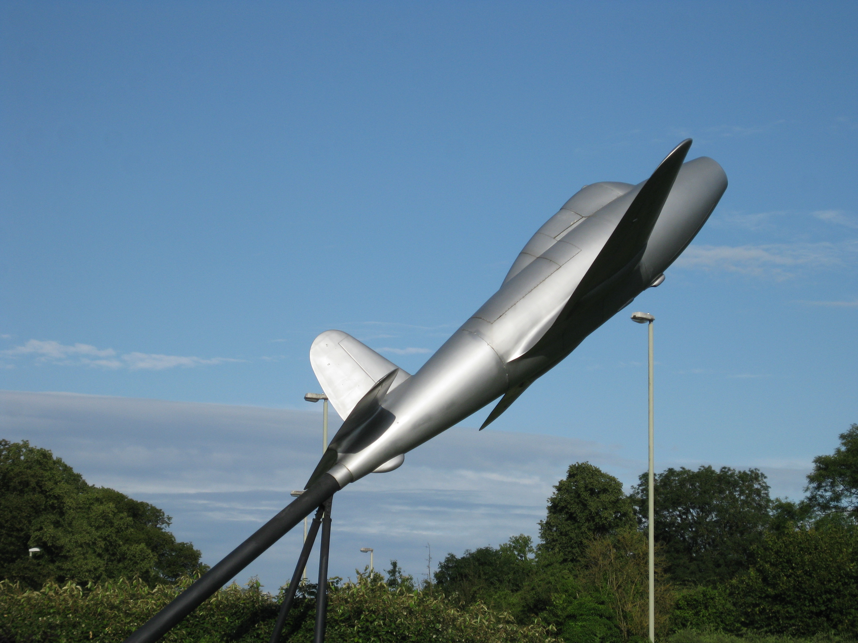 Replica of the Gloster E.28/39 on the Whittle Roundabout, junction of A426 and A4303, south of Lutterworth. Leicestershire